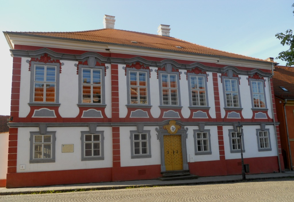 Úštěk, parish house (1722, Octavio Broggio?)